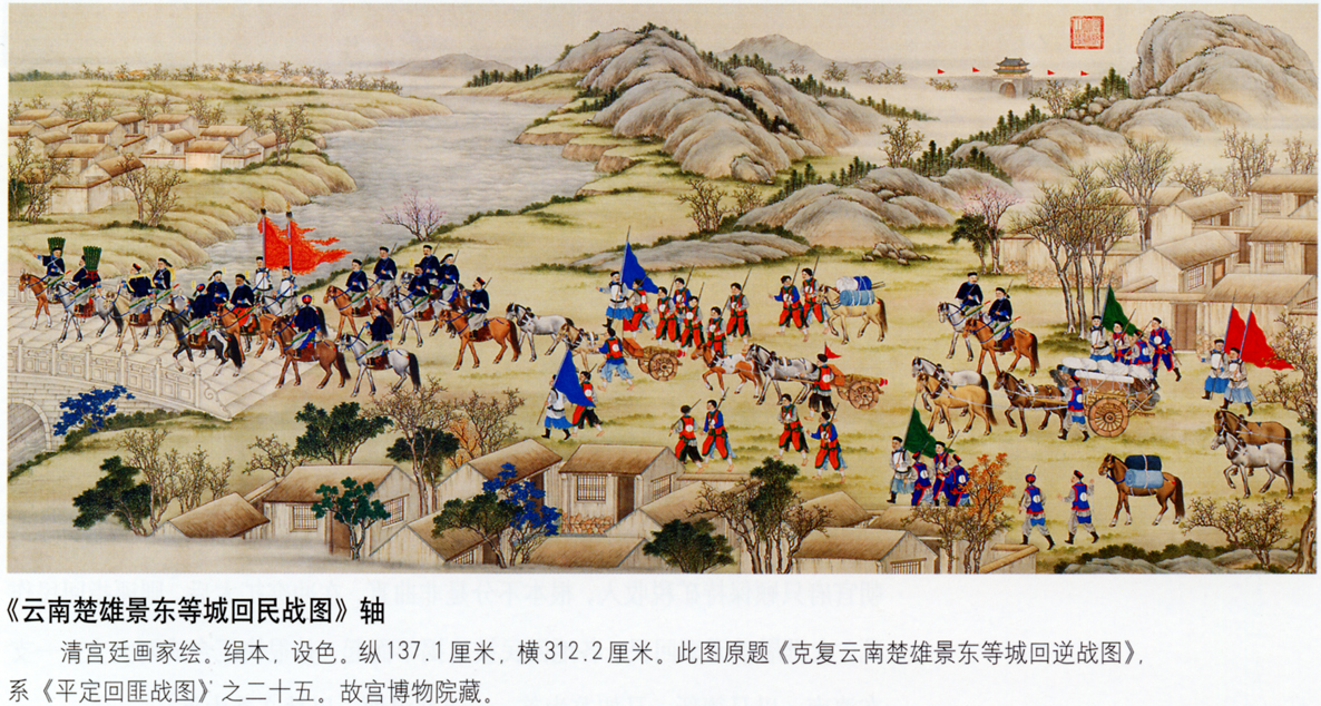 A battle of the Panthay Rebellion (1856–1873)